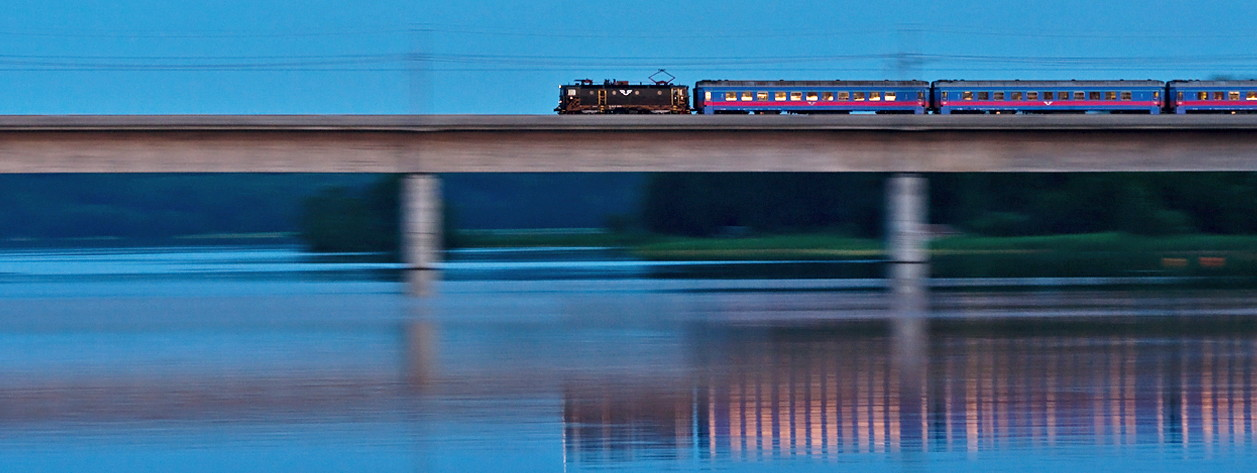 The Ekolsundbridge, the railroadone. June 2009. One InterCity train from Gothenburg to Stockholm is passing by.